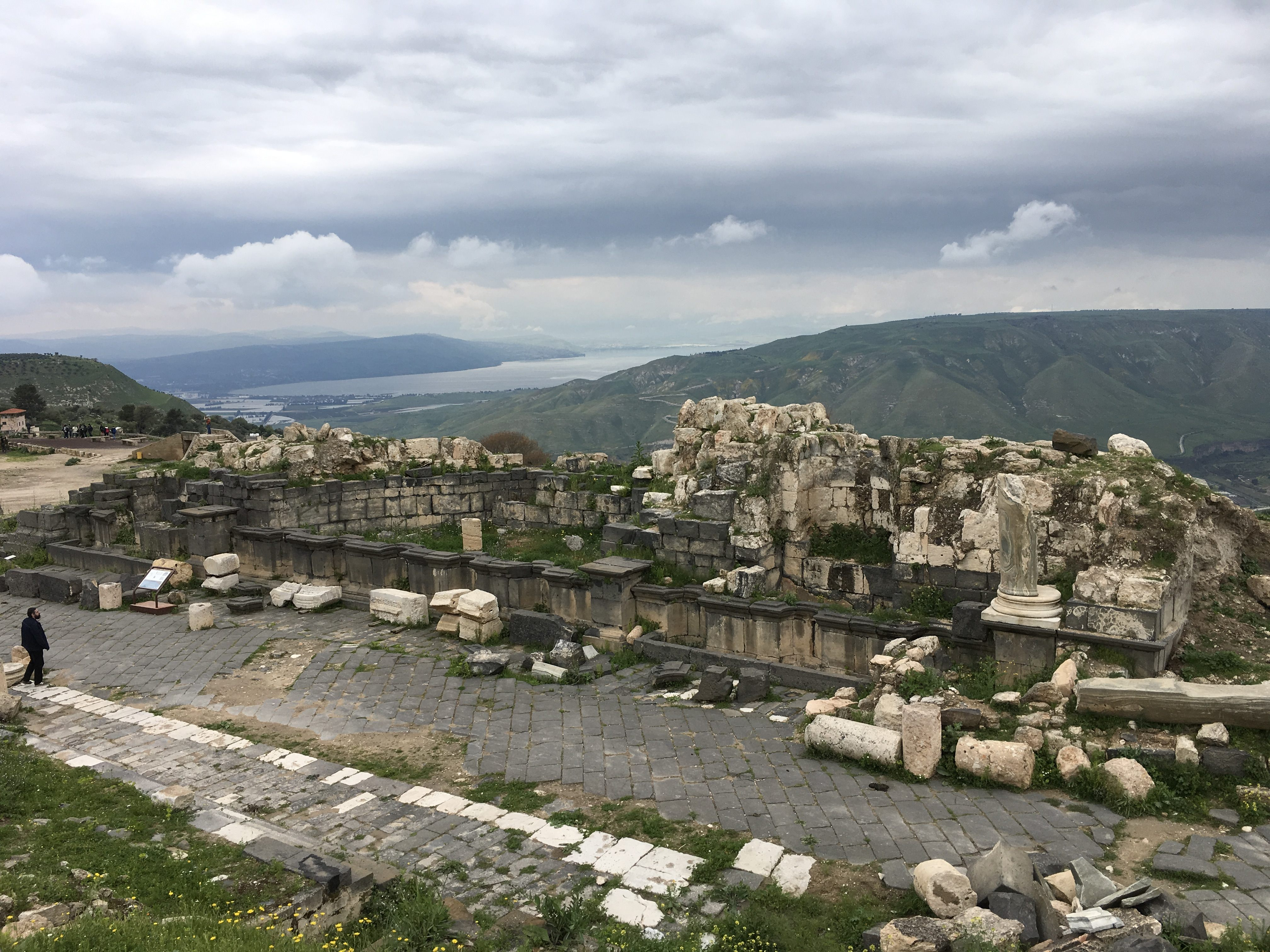 Gadara nympheum